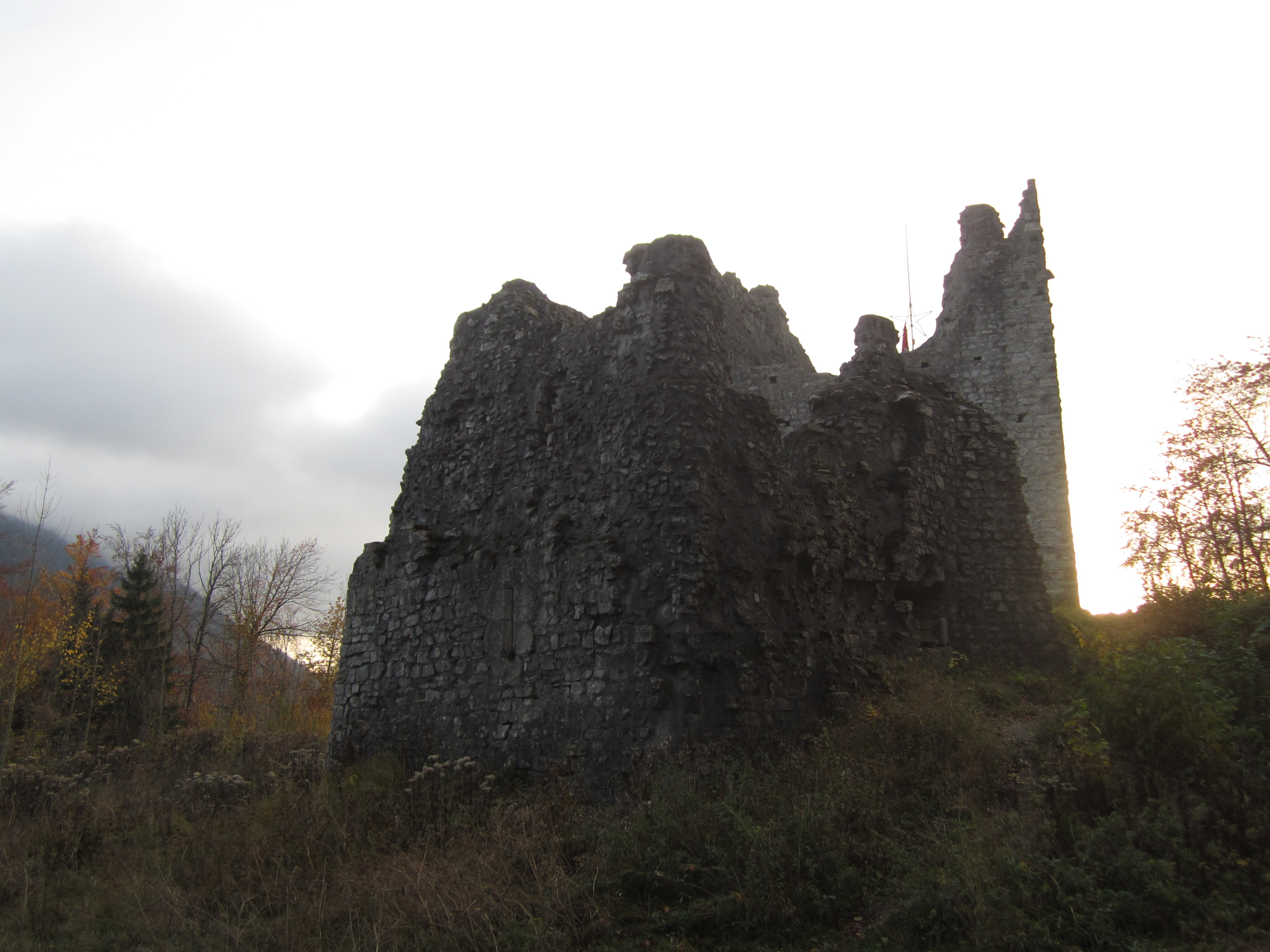 Ruins of Châtel-sur-Montsalvens Castle